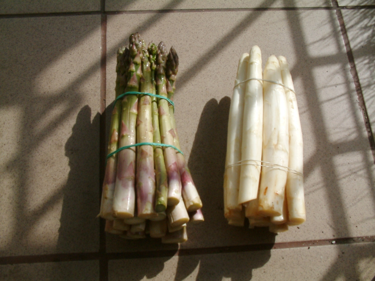 White and green asparagus